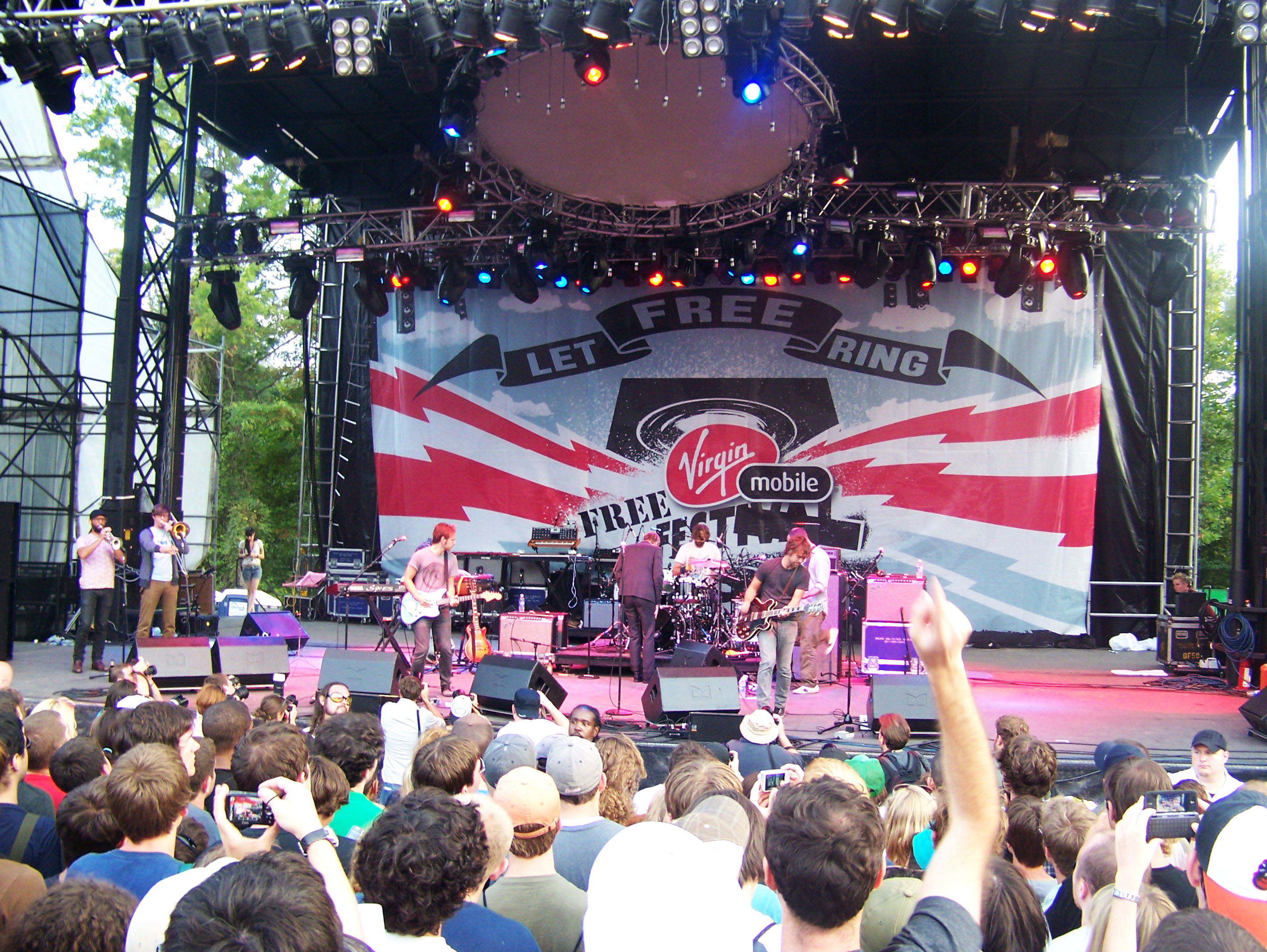 The National playing at the West Stage of the Virgin Mobile Freefest on August 30, 2009.